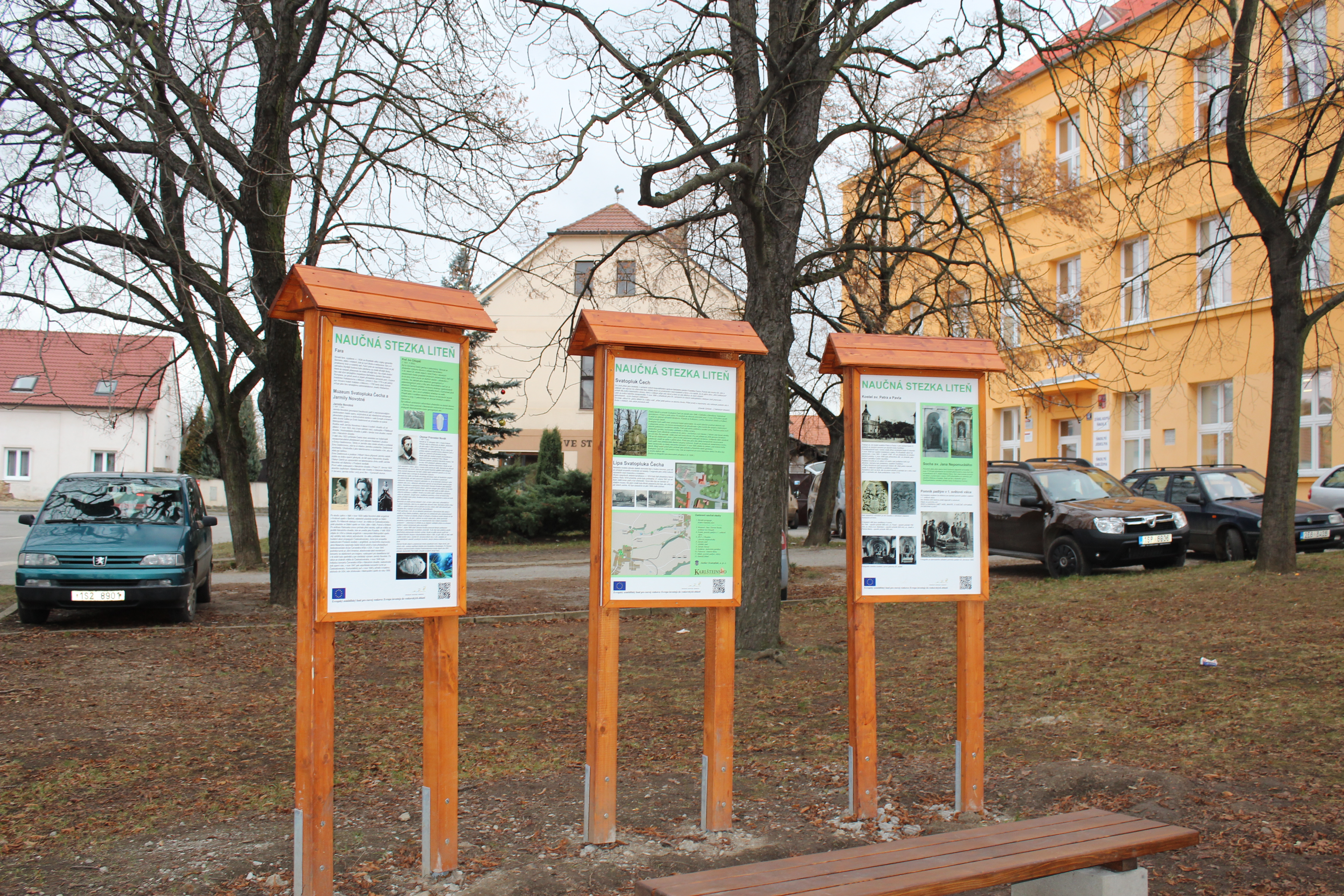 Educational trail Liteň